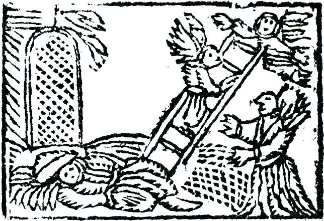 The prophet Jarfke on his death bed (1790)